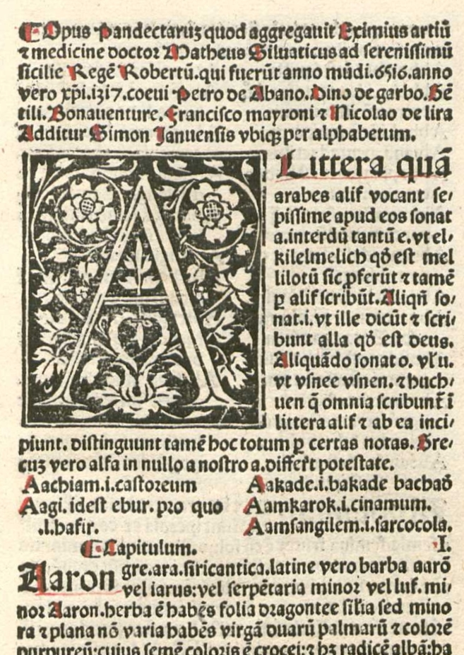 Matthaeus Silvaticus, Liber pandectarum medicinae (1498) title and incipit